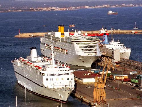 costa victoria-melody- the topaz